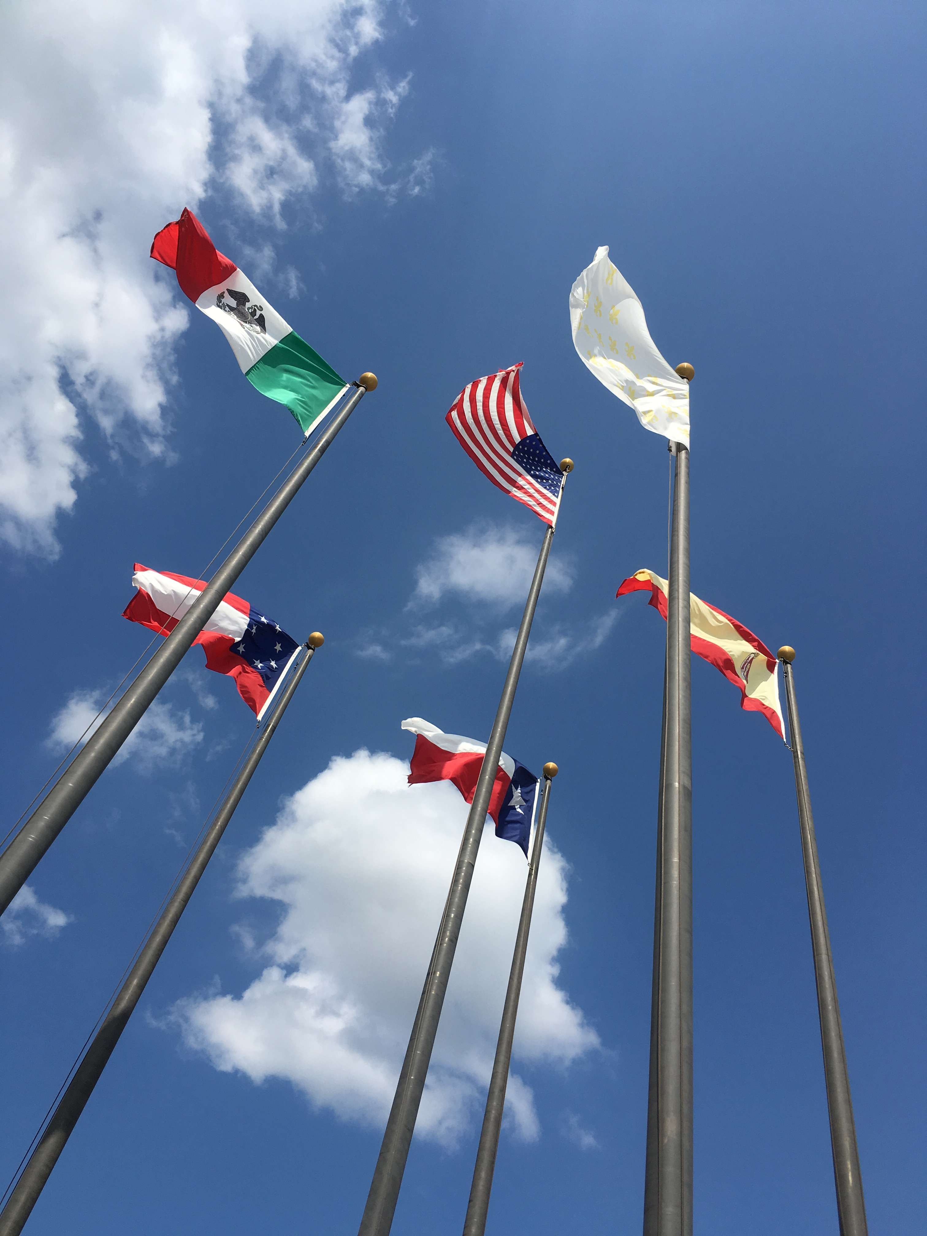 Six historical flags that have flown over Texas, photographed flying on flagpoles at Texas Welcome Center by Oklahoma border on I-35